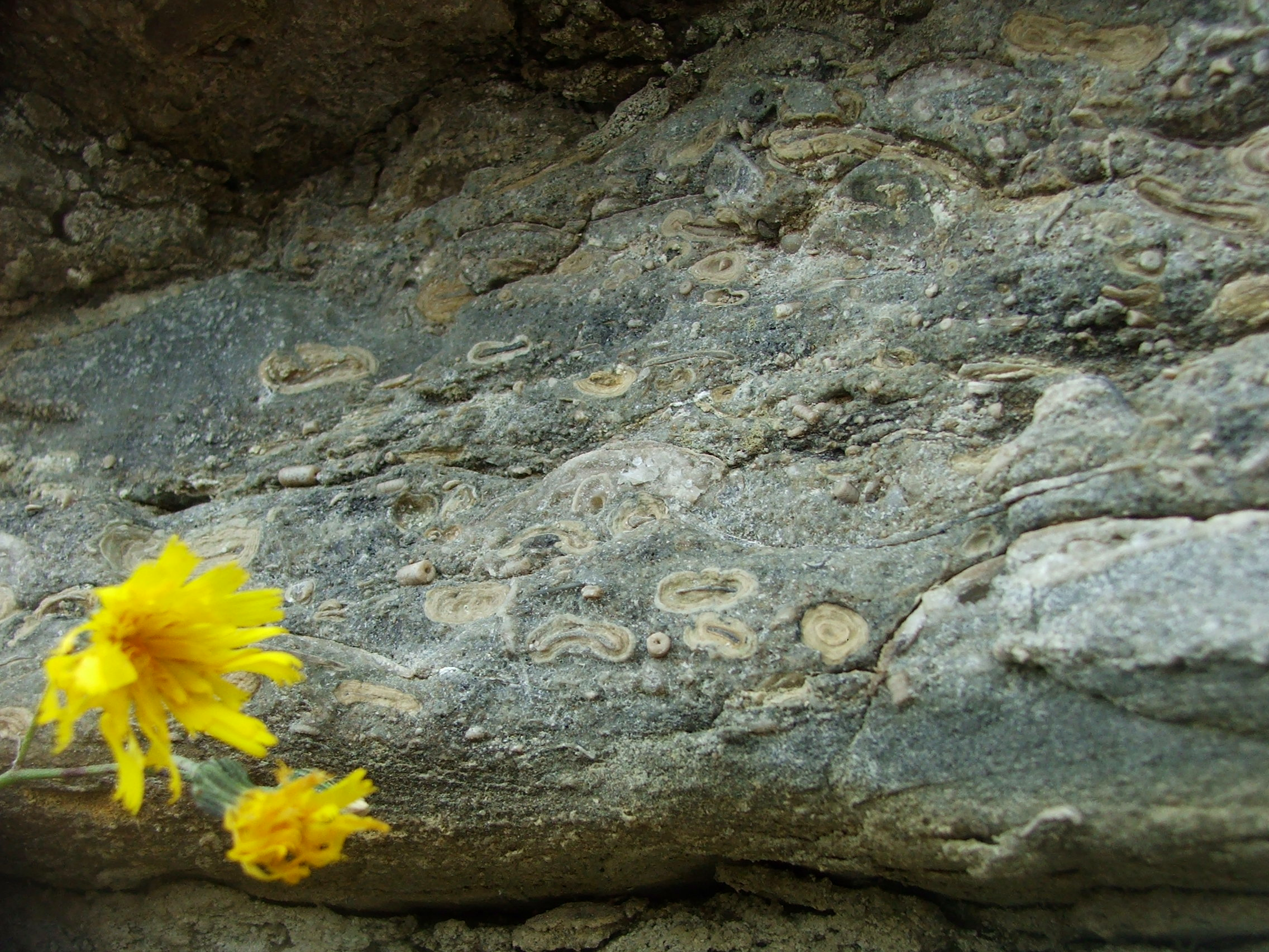 Taken by Verisimilus T north of Laufeld's (1974) "Husryggen 1", in the upper Burgsvik beds of Gotland. Oncolites have shell fragments as nucleii and occur throughout a single bed. Dandelions for scale: large head is 2 cm. See also :Image:Oncolites.jpg - cropped version of the same.